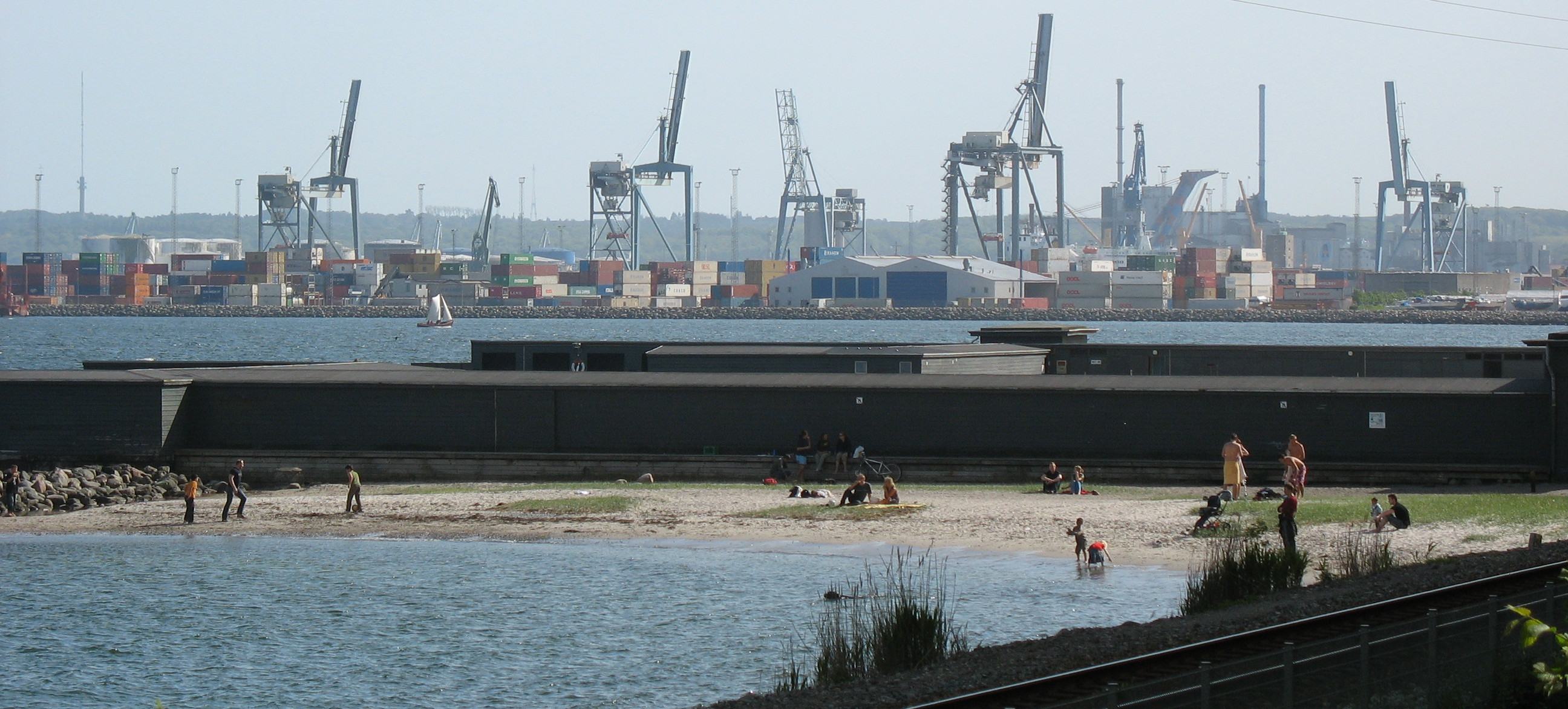 View of the public sea bath of Den Permanente in Aarhus, Denmark. The cranes at the Aarhus harbour can be seen across the skyline.